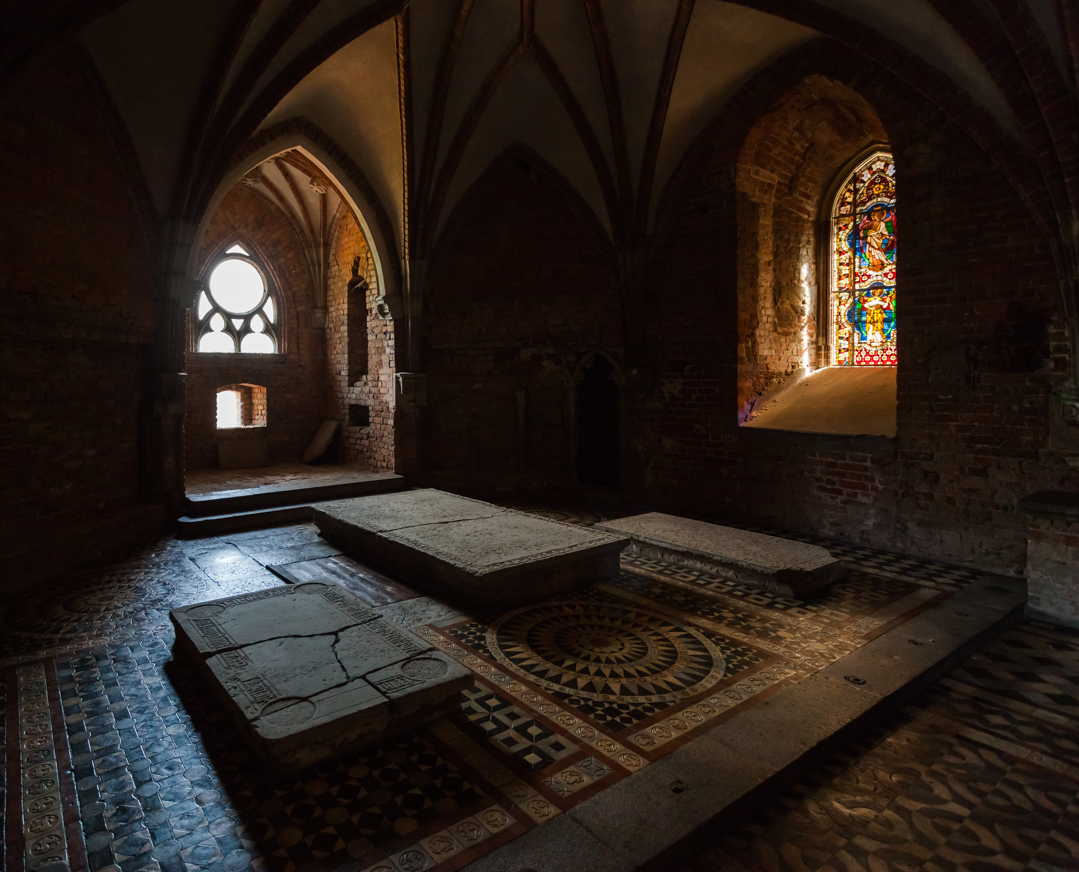 Gravestones in St. Anne's Chapel, Malbork Castle, Poland